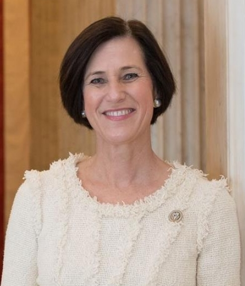 Mimi Walters